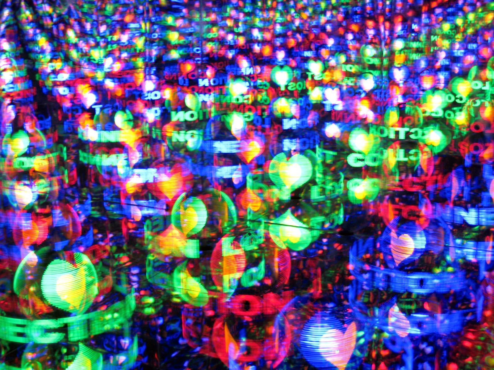 Russian pavilion, 52nd International Art Exhibition, Venice